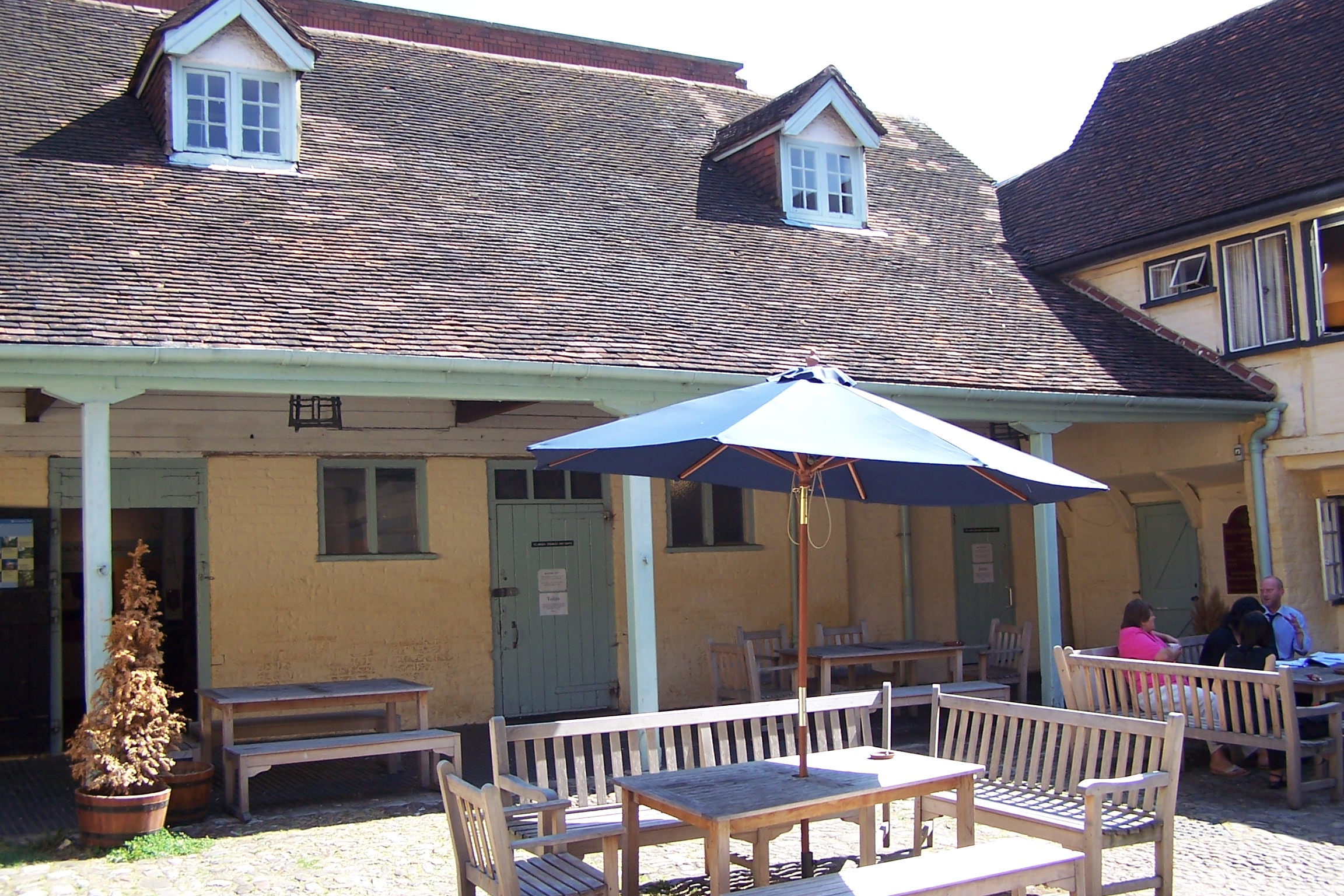 King's Head Inn in Aylesbury, courtyard. The pub was originally built in the 15th century and is now operated by National Heritage